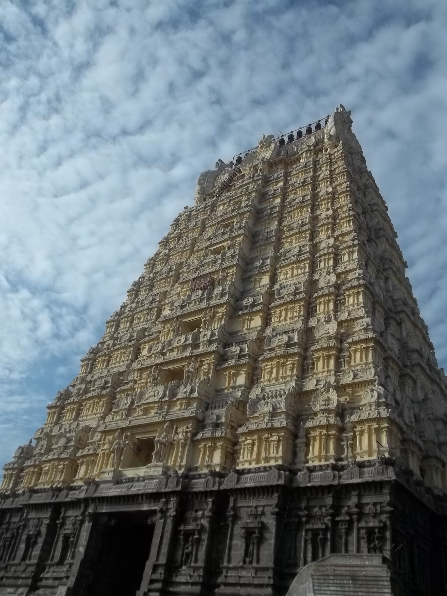 Kamakshi Amman Temple, Kanchipuram is a temple city in the Indian state of Tamil Nadu. It served as the Capital city of the Pallava Kingdom. It is also known by its former names Kanchiampathi, Conjeevaram, and the nickname "The City of Thousand Temples". It is now the Administrative headquarters of Kanchipuram district. Kanchipuram is located 72 kilometers from Chennai, the capital city of the southern state of Tamil Nadu, India. Kanchipuram is considered one of the seven holiest cities to the Hindus of India. In Hinduism, a kṣetra is a sacred ground, a field of active power, a place where moksha, final release can be obtained. The Garuda Purana enumerates seven cities as providers of moksha, namely Ayodhya, Mathura, Haridwar, Varanasi, Avantikā, Dvārakā and Kanchipuram. Among the major Hindu temples in Kanchipuram are some of the most prominent Vishnu Temples and Shiva Temples of Tamil Nadu like the Varadharaja Perumal Temple for Vishnu and the Ekambaranatha Temple which is the "earth abode" of Shiva. Kamakshi Amman Temple, Kumara Kottam, Kachapeshwarar Temple, and the Kailasanathar Temple are some of the other prominent temples.